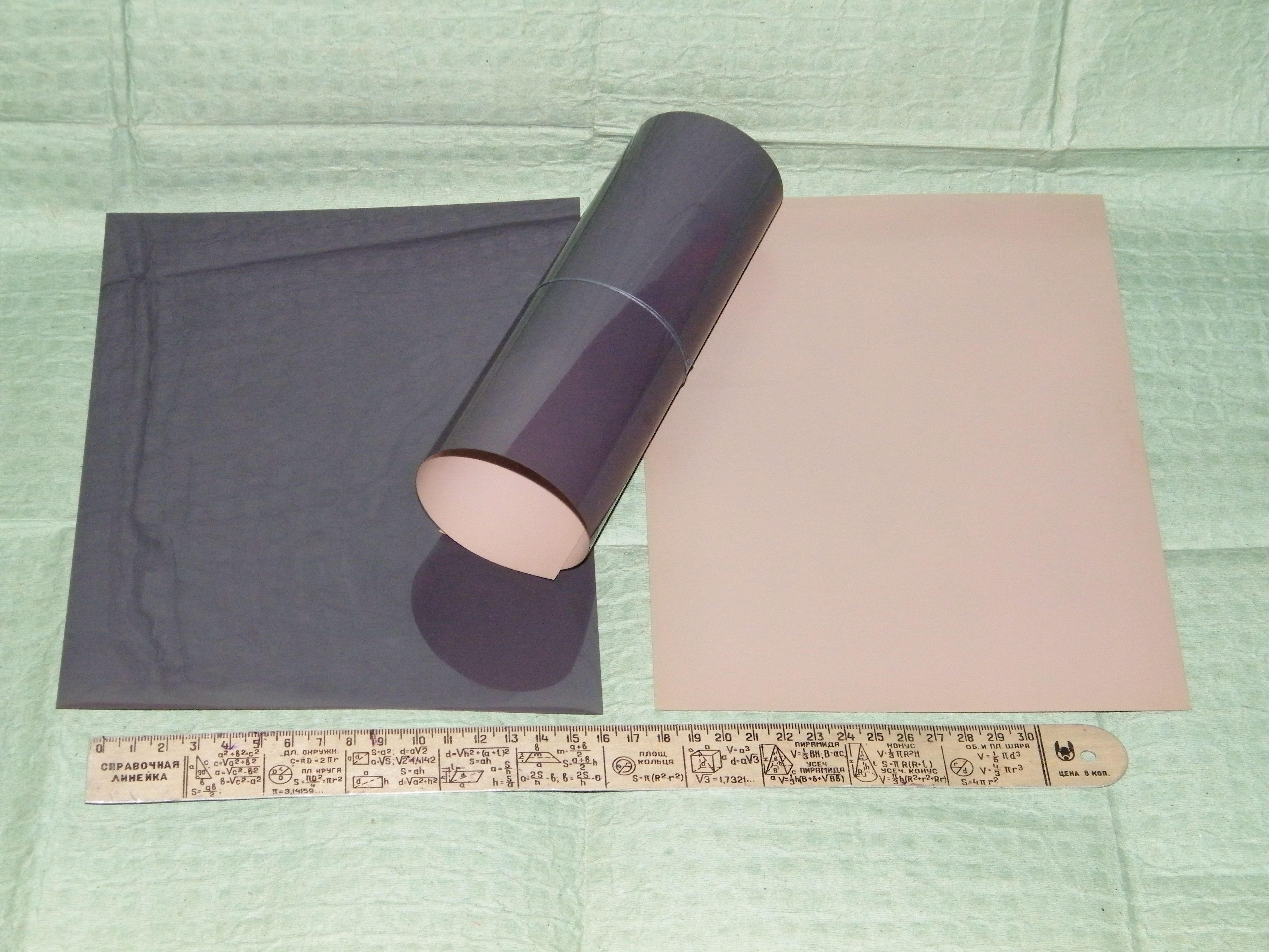 Листовая фотопленка 18 на 24